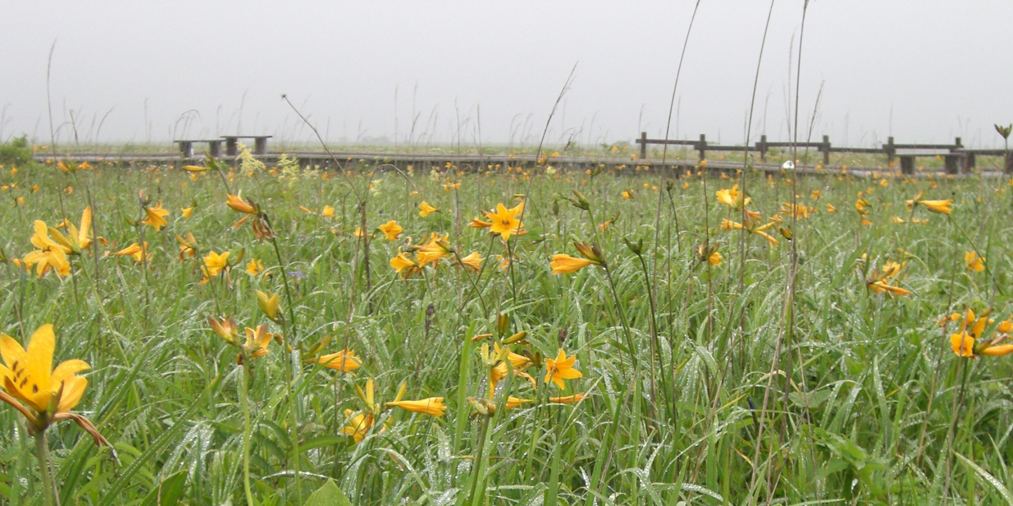 Hemerocallis dumortieri var. esculenta — Dumortier's Daylily. In Kiritappu Wetland, Hokkaido, northern Japan.